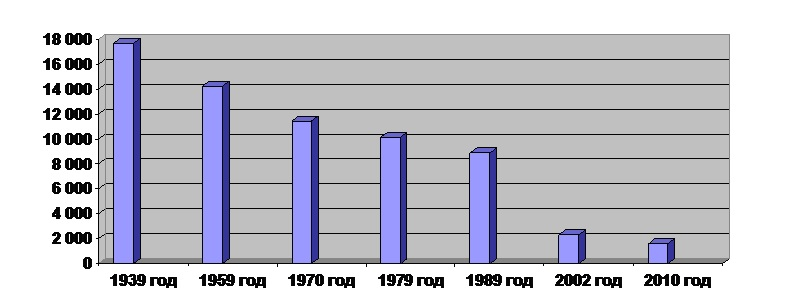 Jewish Autonomous Oblast